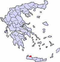 locator map, based on Image:Prefectures Greece grey.png